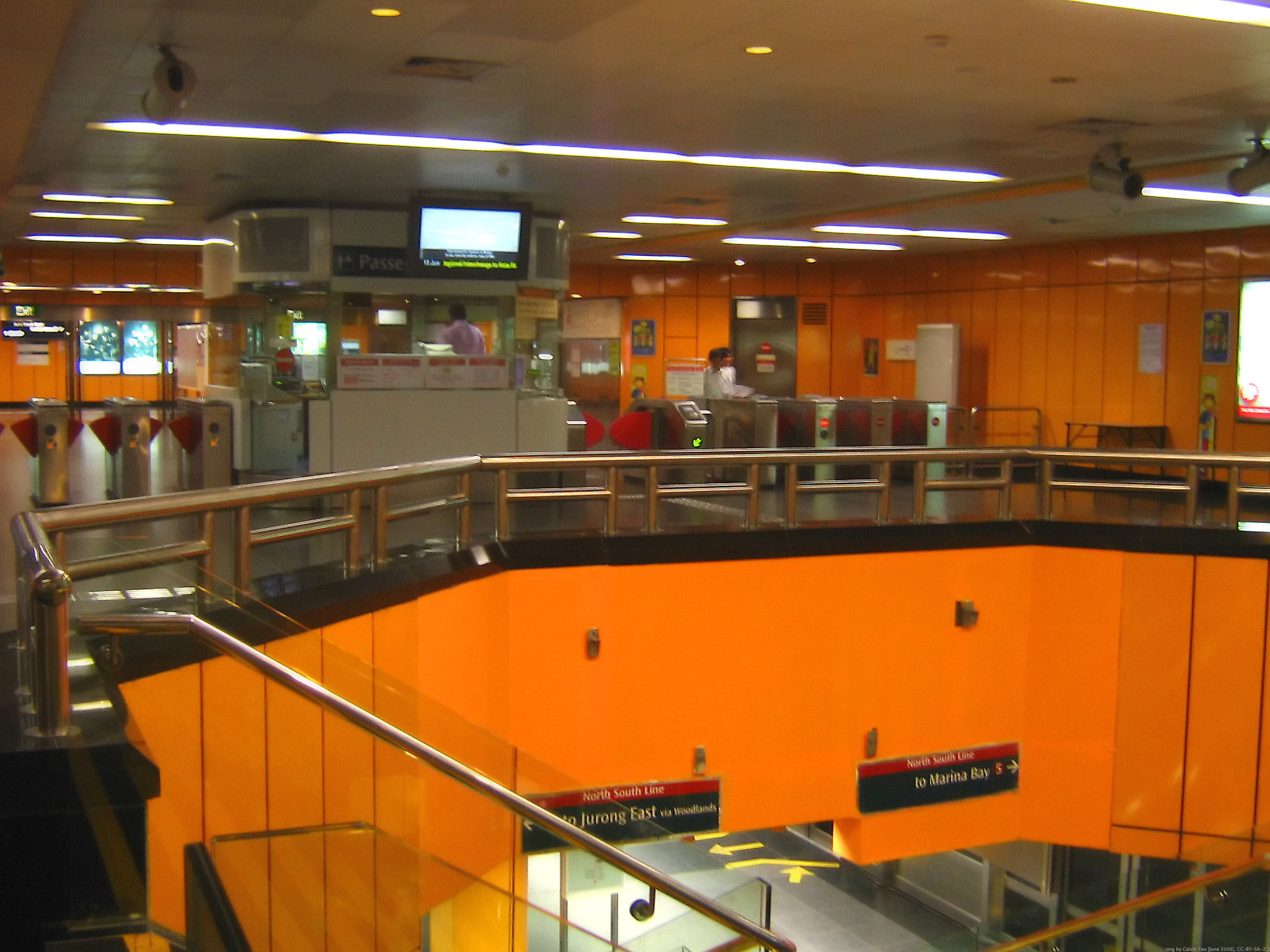 Ticket Concourse Level, Newton MRT Station (NS21), Republic of Singapore Img by Calvin Teo, June 2006